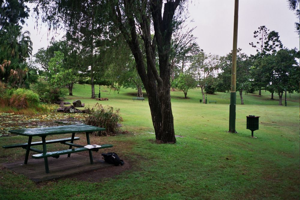 Queen's Park (2005)